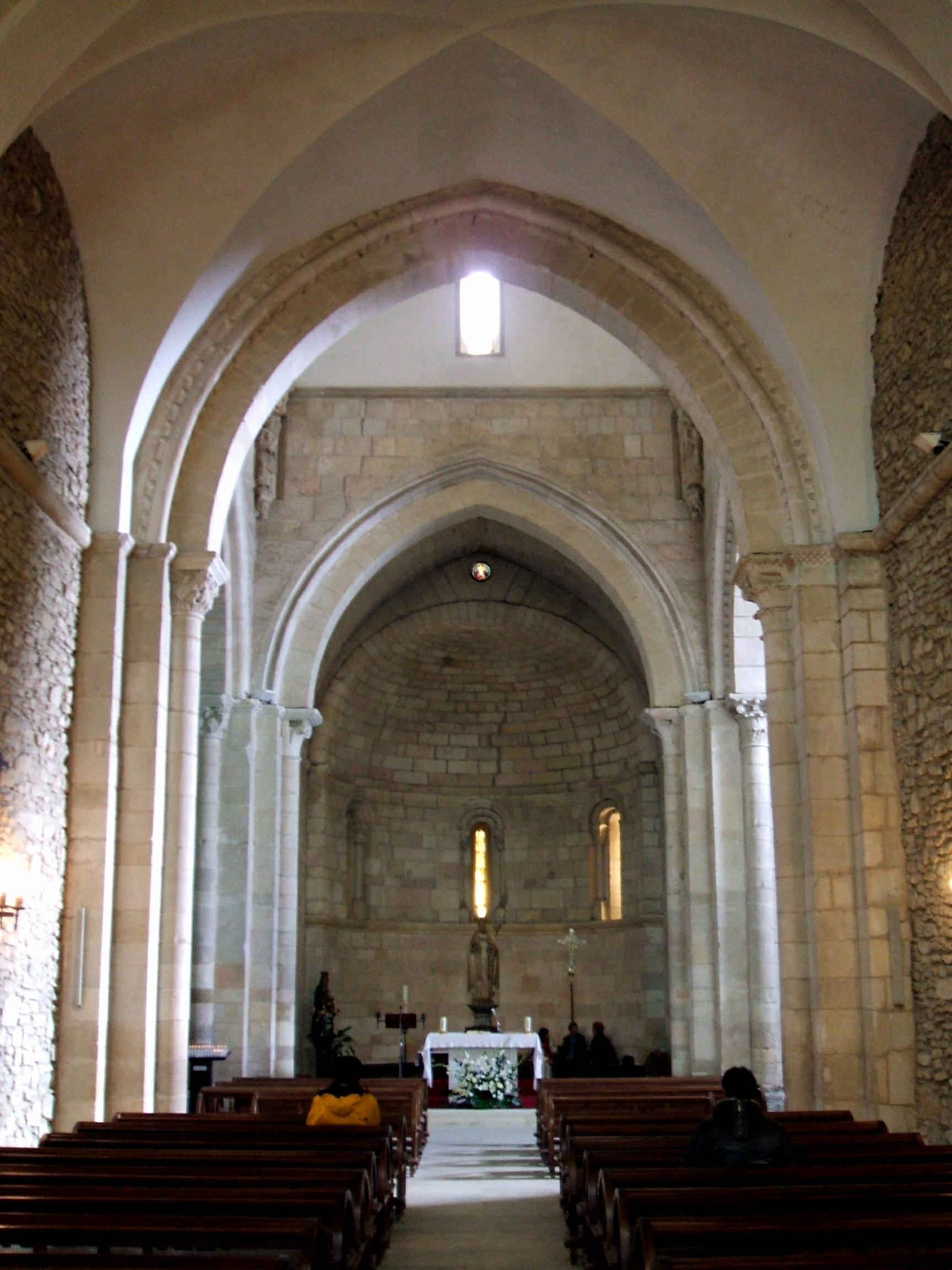 Basílica de San Prudencio de Armentia, en Vitoria-Gasteiz (Álava, País Vasco, España)